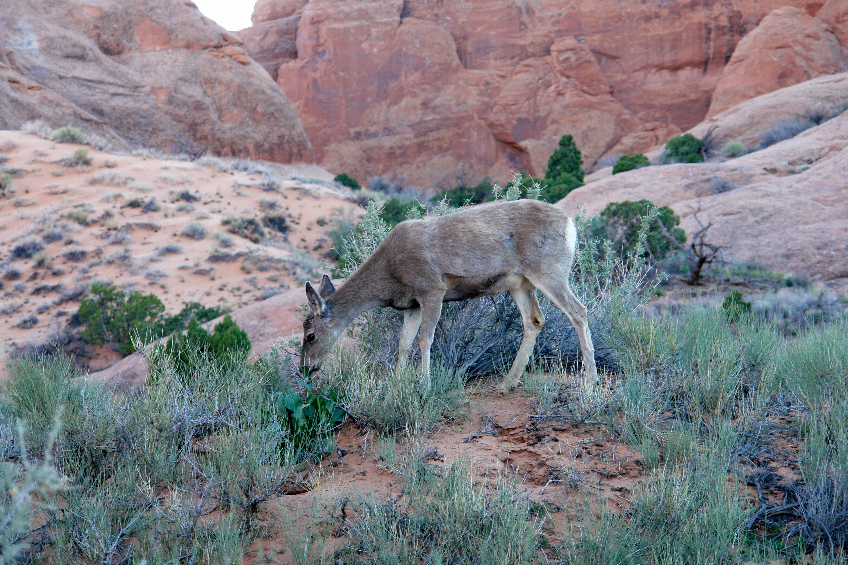 A mule deer (Odocoileus hemionus) eating in Arches National Park, Utah at sunset